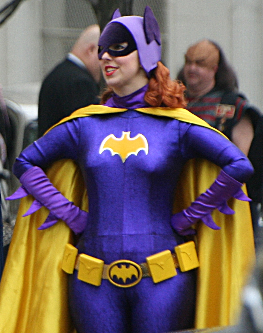 Batgirl, cosplay, Dracon Con, Atlanta 2009 Camera: Canon EOS Digital Rebel XT License on Flickr (2011-02-14): CC-BY-2.0 Flickr tags: dragon, con, dragoncon, masquerade, parade, costumes, cosplay, cosplayers